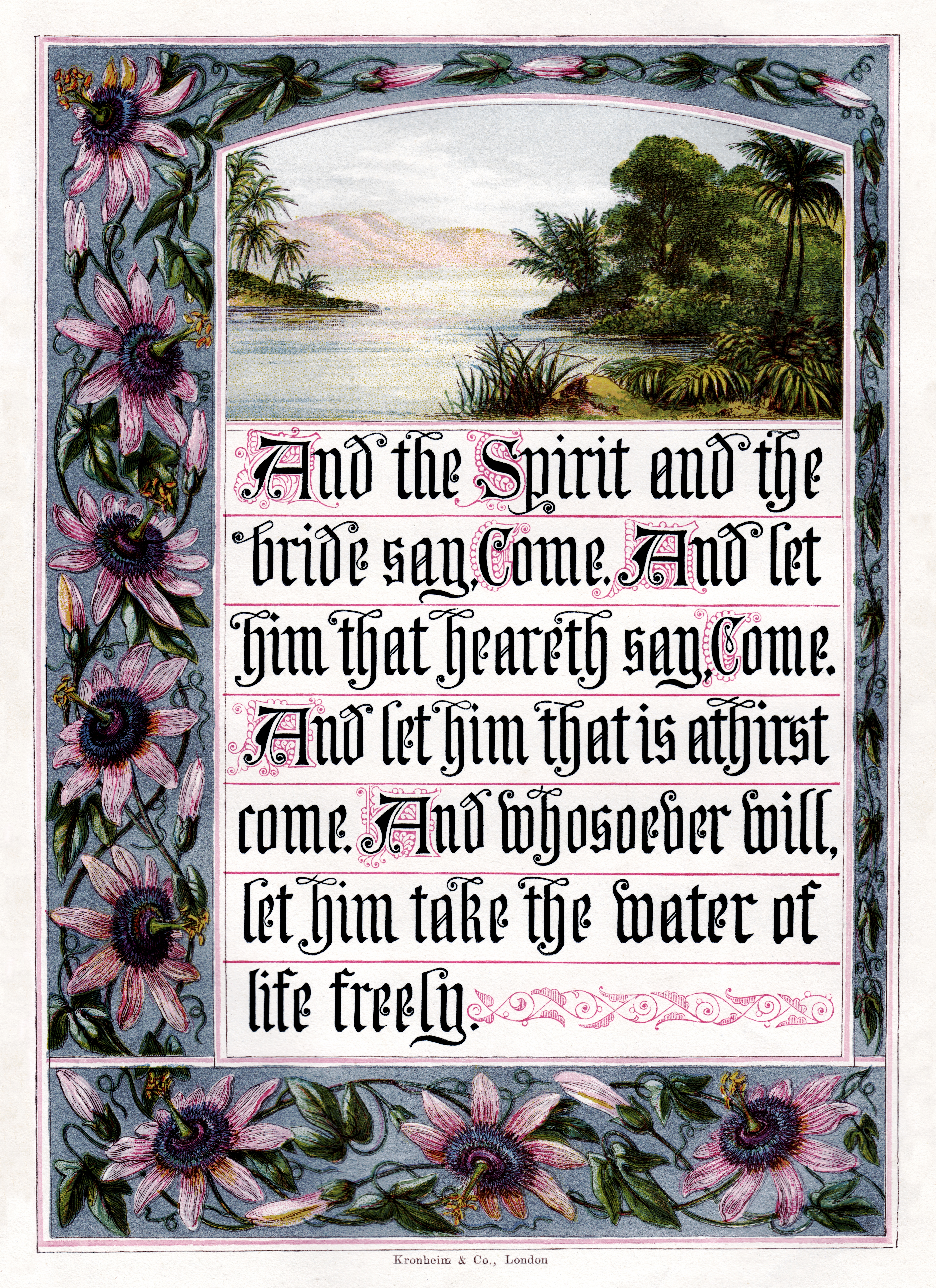 Kronheim's Baxter process illustration of Revelation 22:17 (King James' Version), from page 366 of the 1880 omnibus printing of The Sunday at Home. Scanned at 800 dpi. The greyish border around the flowers is a metallic silver ink, however, shininess cannot be reproduced in an electronic medium.